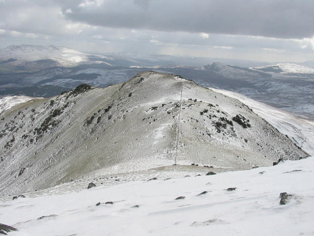 Arenig Fawr south top, near to Arenig Fawr [hill or Mountain], Gwynedd, Great Britain. The secondary summit from near the main top.